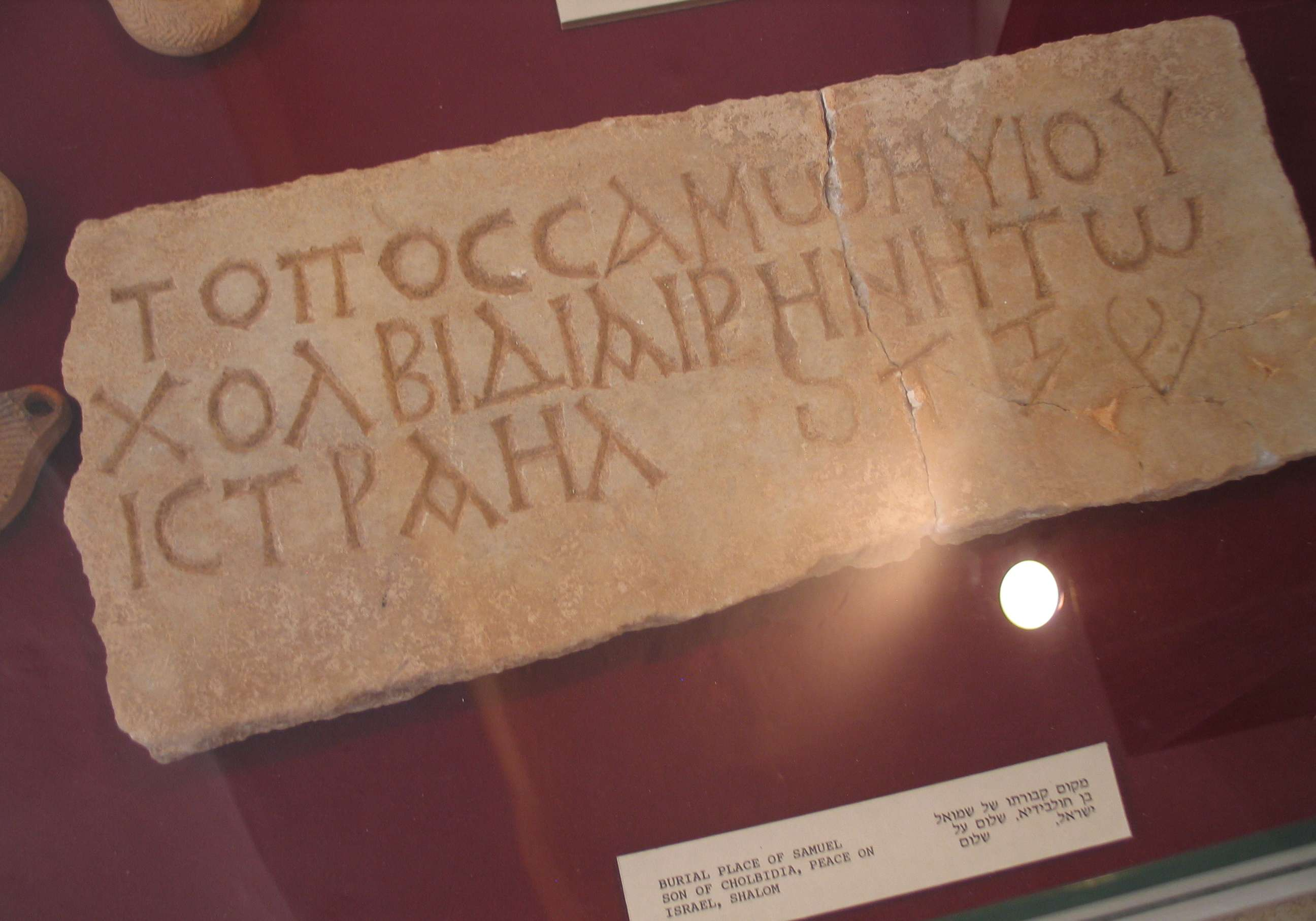 "Burial place of Samuel son of Cholbidia, peace on Israel, shalom", Jaffa Museum, Jaffa, Israel